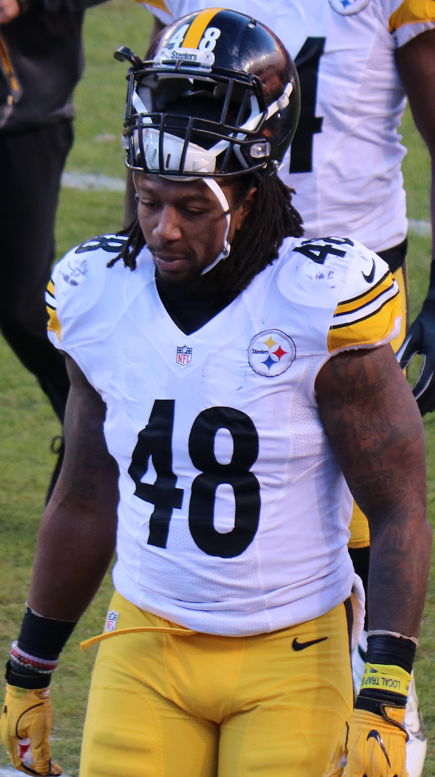 Bud Dupree, a player on the National Football League.